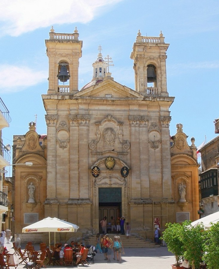 San Ġorġ (St. George) parish church in Rabat/Victoria, Gozo